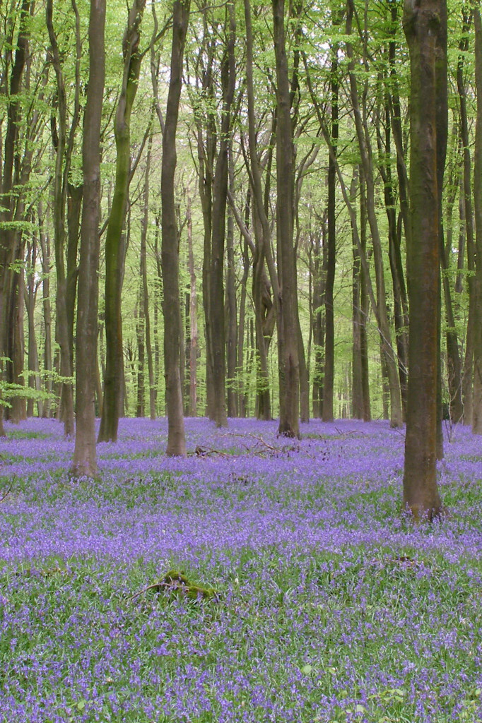 Beeches and bluebells in Micheldever Woods, Hampshire, UK.